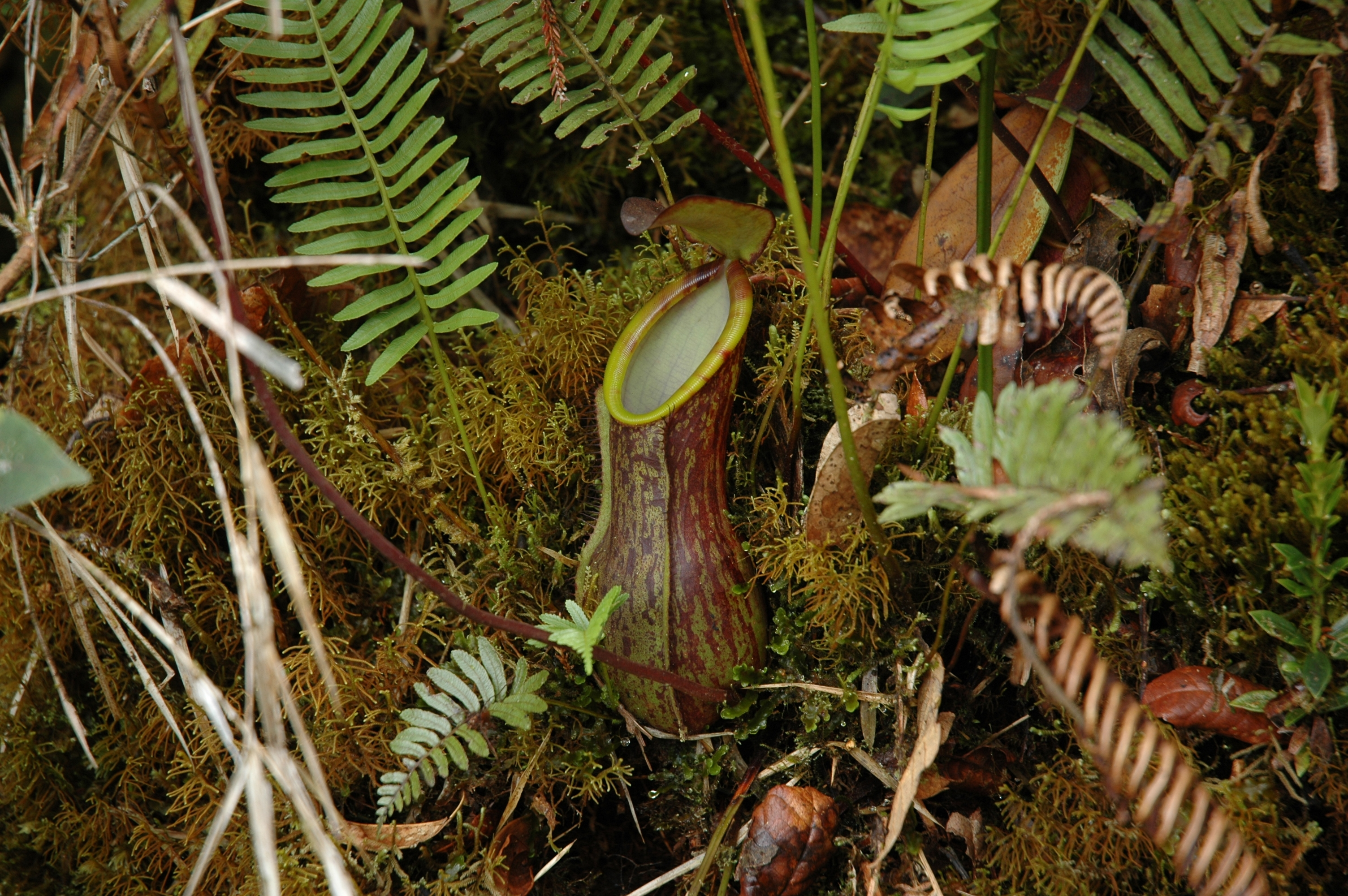 Nepenthes murudensis lower pitcher Gunung Murud by Jeremiah Harris